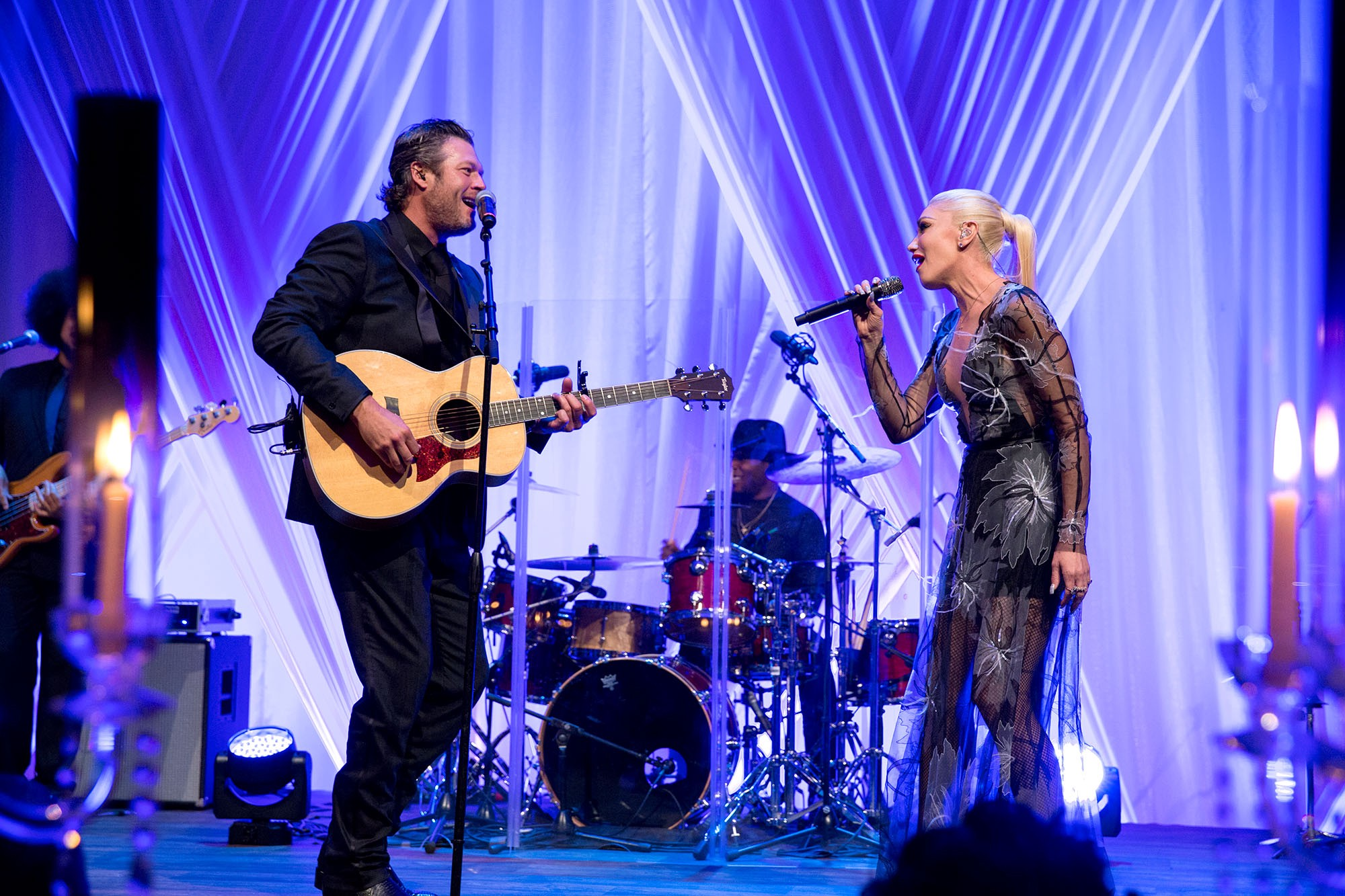 Blake Shelton joins Gwen Stefani for a duet. (Official White House Photo by Pete Souza)